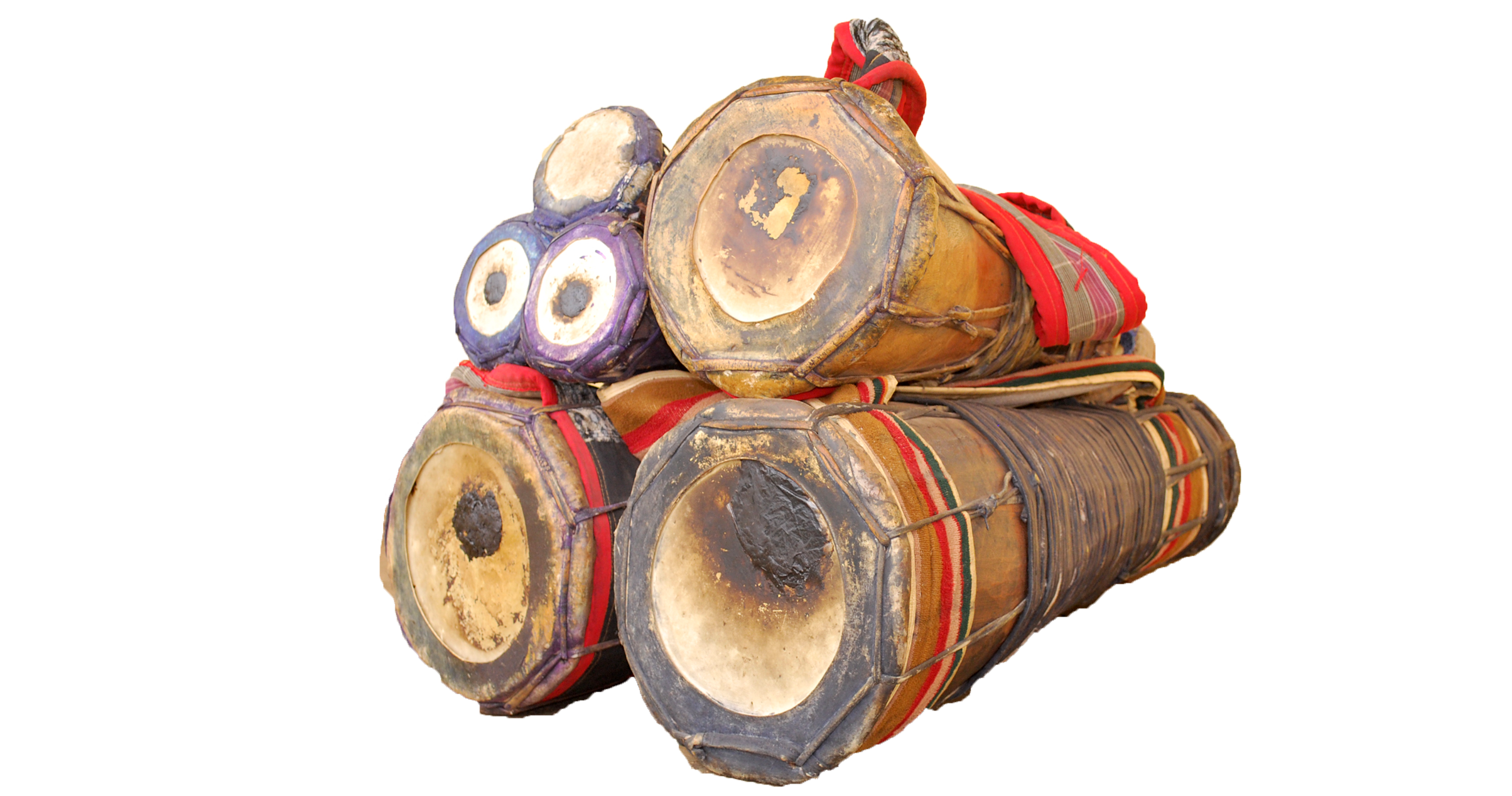 A set of Bata Drum ensemble consisting of the Iya Ilu, Omele ako, Omele abo and bata olojumeta (three heads bata) This is an image from Nigeria